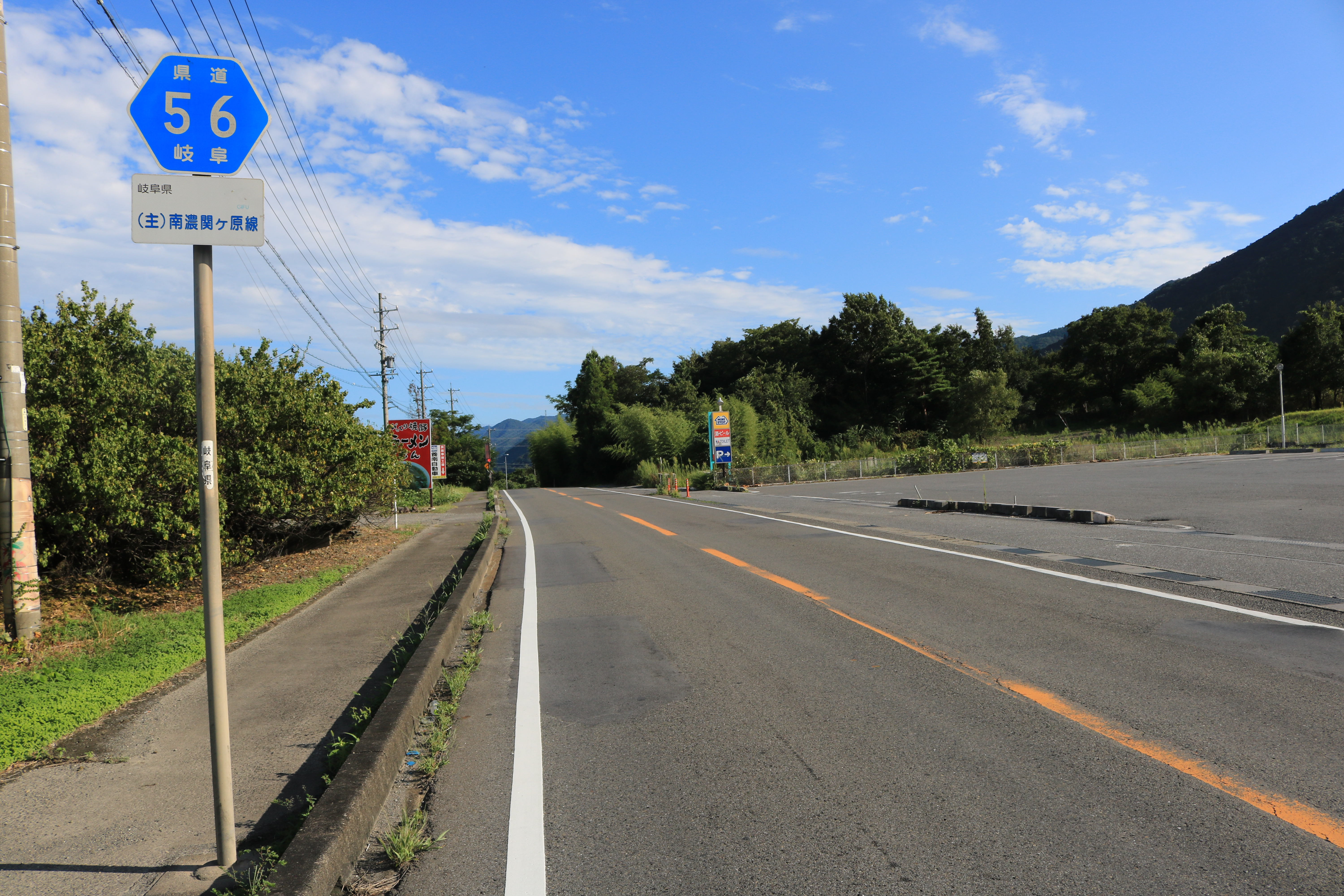 Gifu Prefectural Road Route 56 in Isshiki, Yoro, Gifu prefecture, Japan.